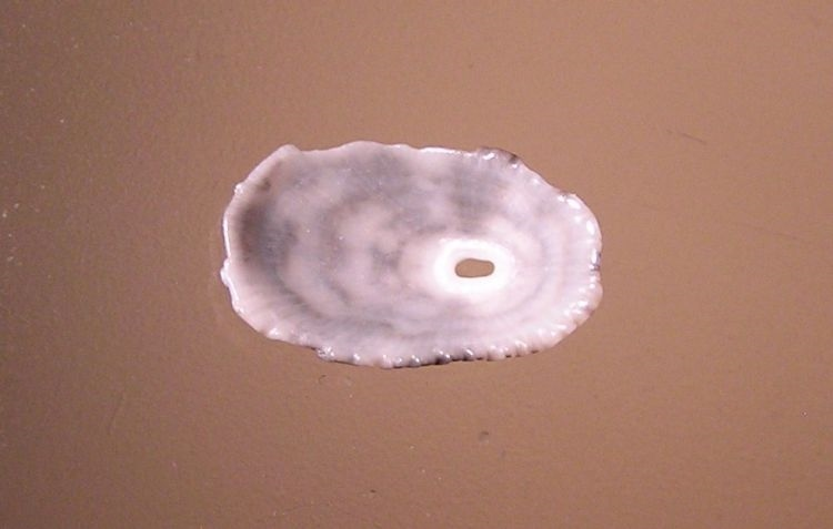 Diodora rueppellii (G.B. Sowerby I, 1835) (underside) , a keyhole limpet from the family Fissurellidae; Malaga, Spain